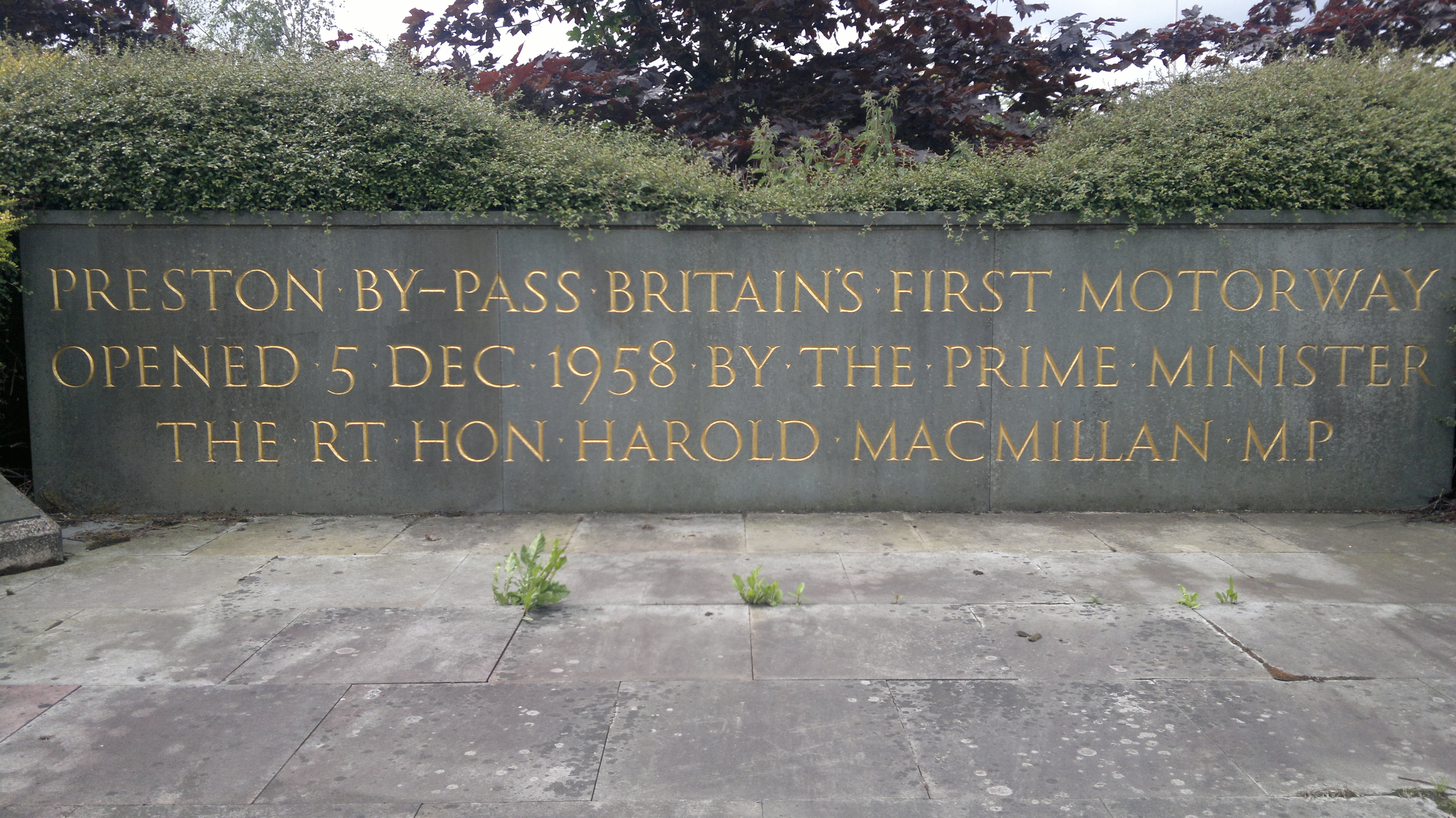 The modern M6 is a world away from the stretch of road that opened on that auspicious day back in 1958 and the same is true of Britain itself. I believe this plaque was relocated when the motorway was improved. Plaque depicting the opening of the Preston By-pass